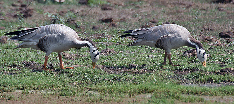 Bar-headed Goose (Anser indicus) at Keoladeo National Park, Bharatpur, Rajasthan, India.